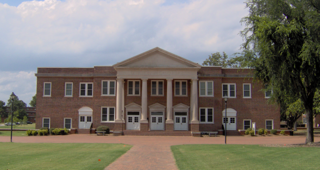 Photograph of D. Rich Memorial Building at Campbell University